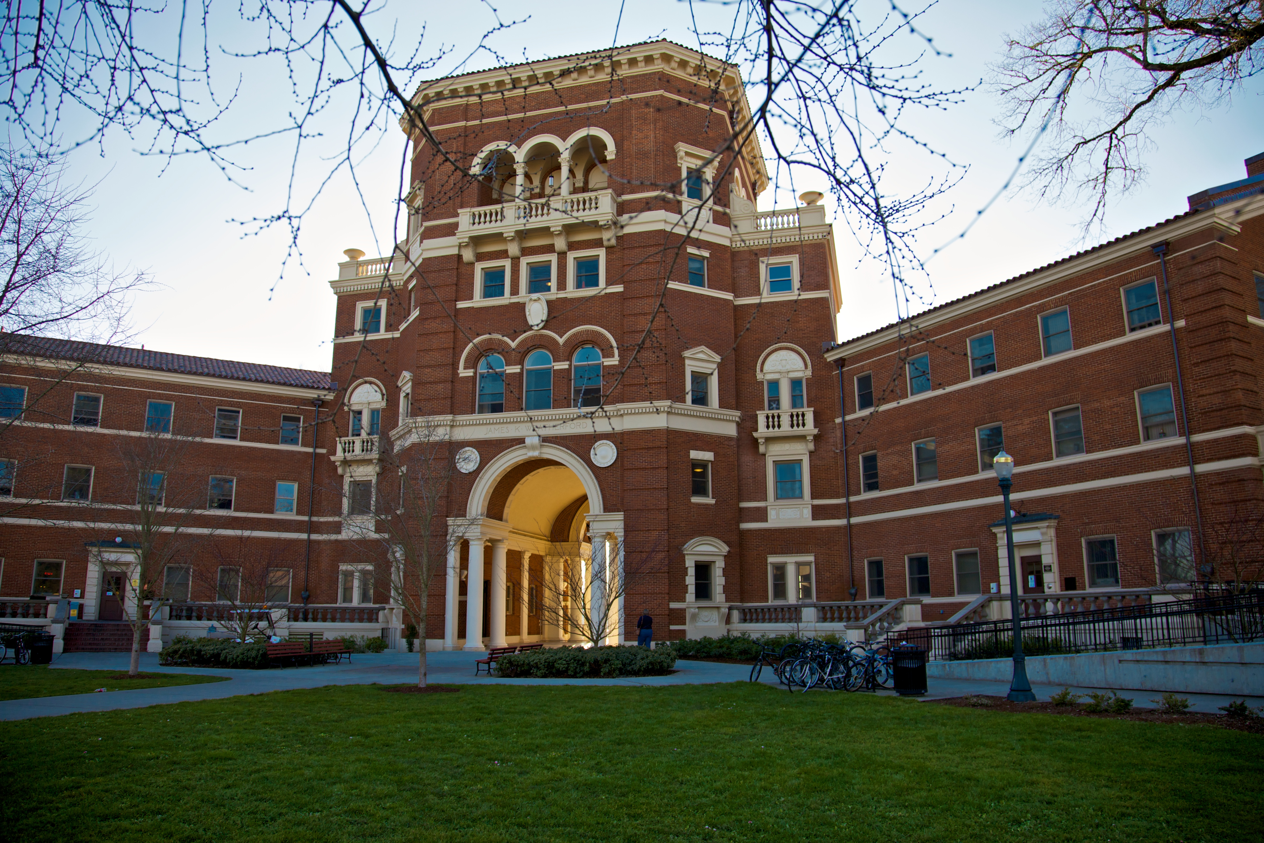 Weatherford Hall at Oregon State University in Corvallis, Oregon, USA.